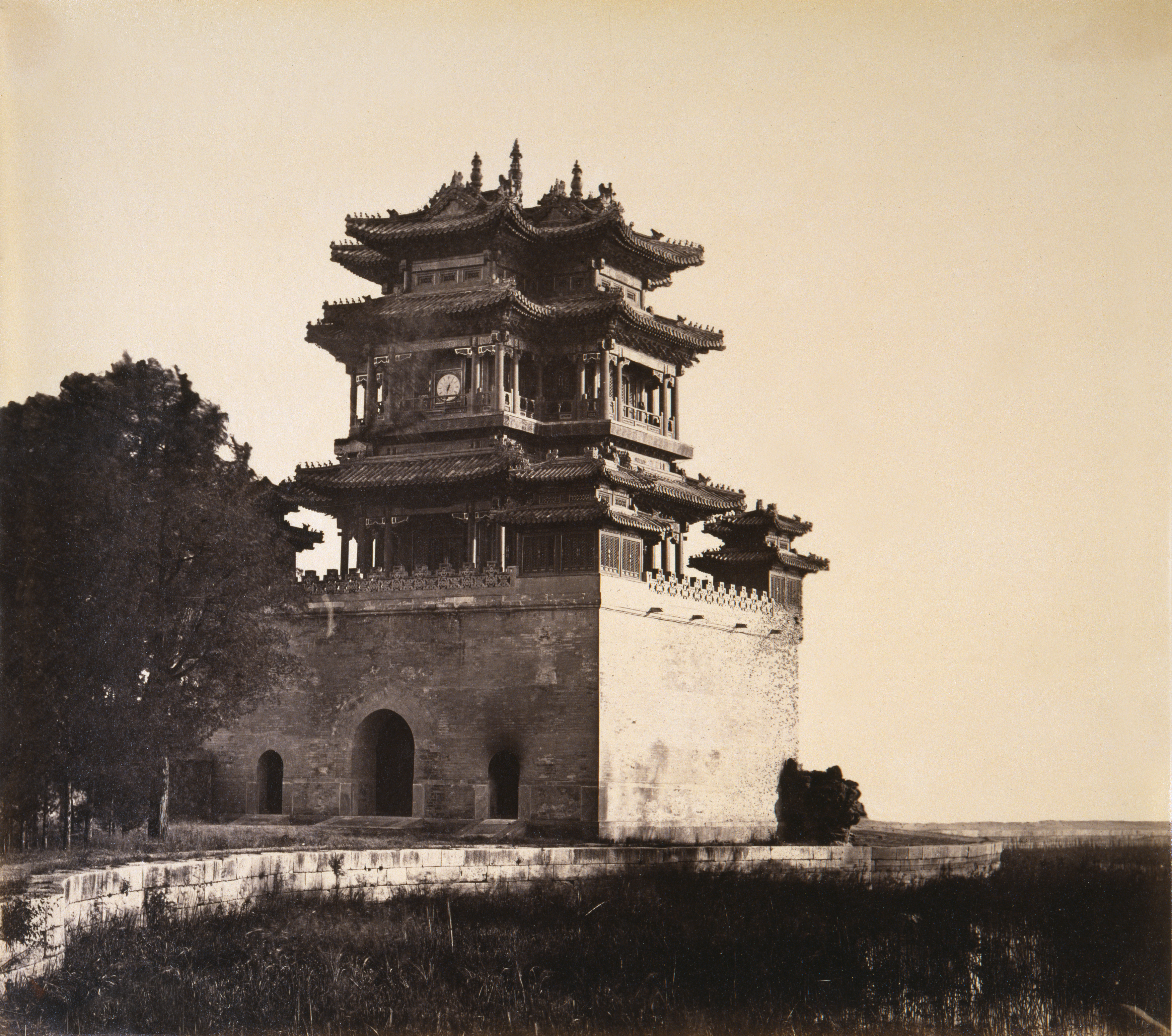 Felice Beato (British, 1832-1909) Imperial Summer Palace, before the Burning, Yuen Ming Yuen (sic), Pekin (title from a print of this image appearing in an album compiled in 1862) View of the Belvedere of the God of Literature [Wen Chang Di Jun Ge] (now known as the Studio of Literary Prosperity or Wen Chang Ge), Garden of the Clear Ripples [Qing Yi Yuan] on the grounds of the Yunamingyuan (Old Summer Palace) (now known as the Summer Palace or Yihe Yuan), Peking (now Beijing), China.